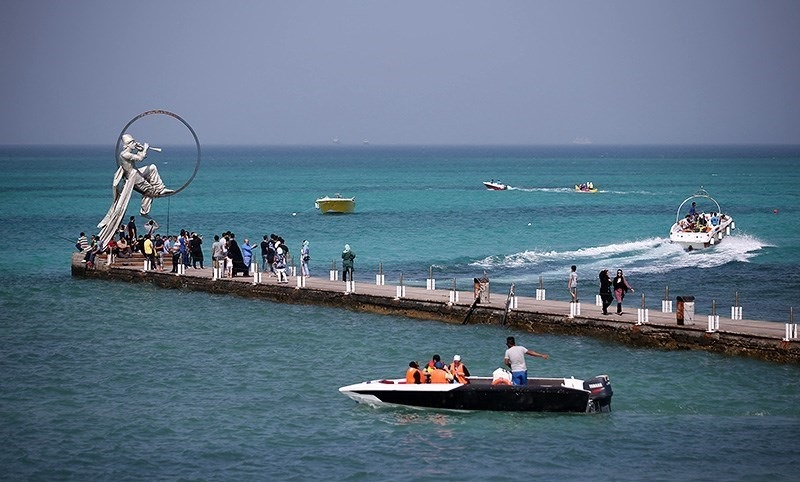 Kish Island during Norouz holidays